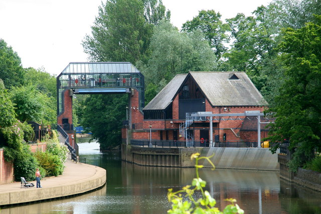 Foss Barrier The River Foss Barrier as viewed from Castle Mills Bridge. The barrier was built in 1989 as part of a flood alleviation scheme following the 1982 floods. It is located at St Georges Field in York where the River Foss meets the River Ouse. The 16 tonne gate can be lowered into the River Foss to stop the Foss levels from rising flood waters on the River Ouse.